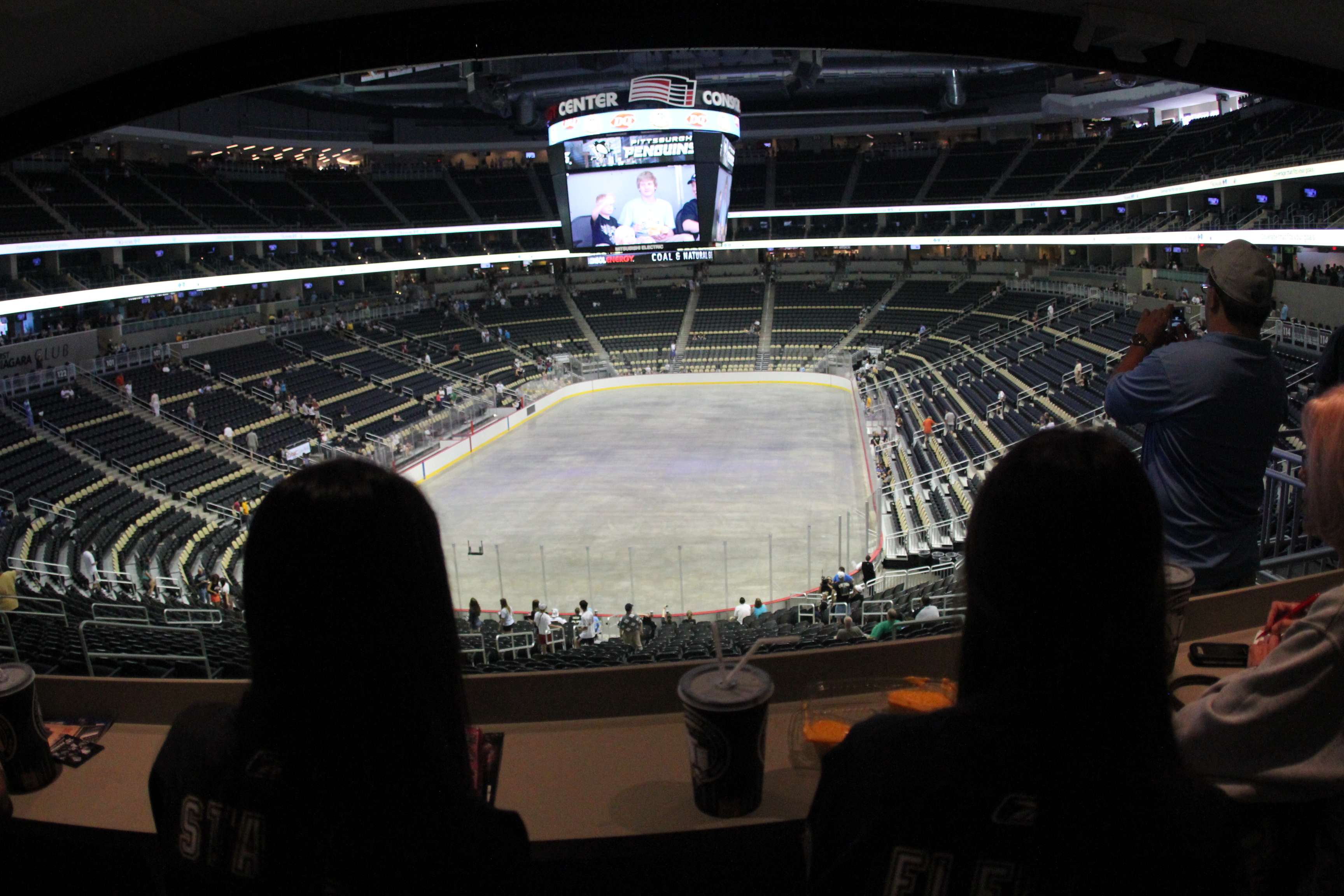 Two Girls watching the empty rink